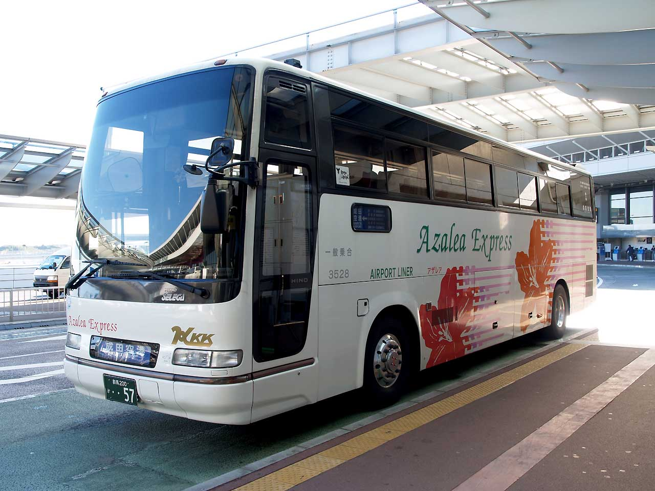 Fleet of Kan-etsu Kotsu, for Narita Airport Line "Azalea", bound for Takasaki and Maebashi, Gunma. Model: Hino Selega GD KC-RU4FSCB License plate: GMG200 KA0057 Place: Narita International Airport